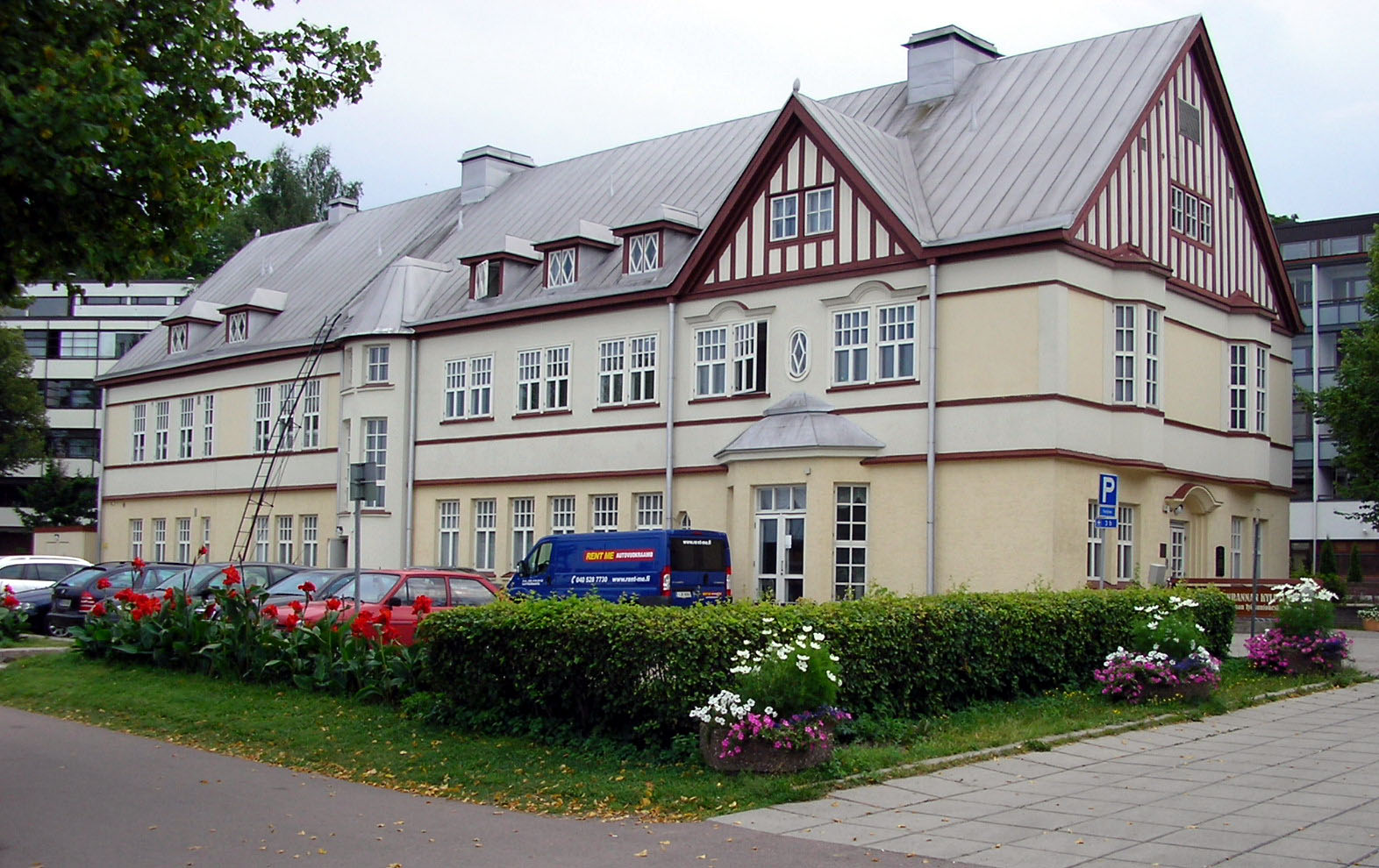 Lappeenranta Spa in Lappeenranta, Finland.